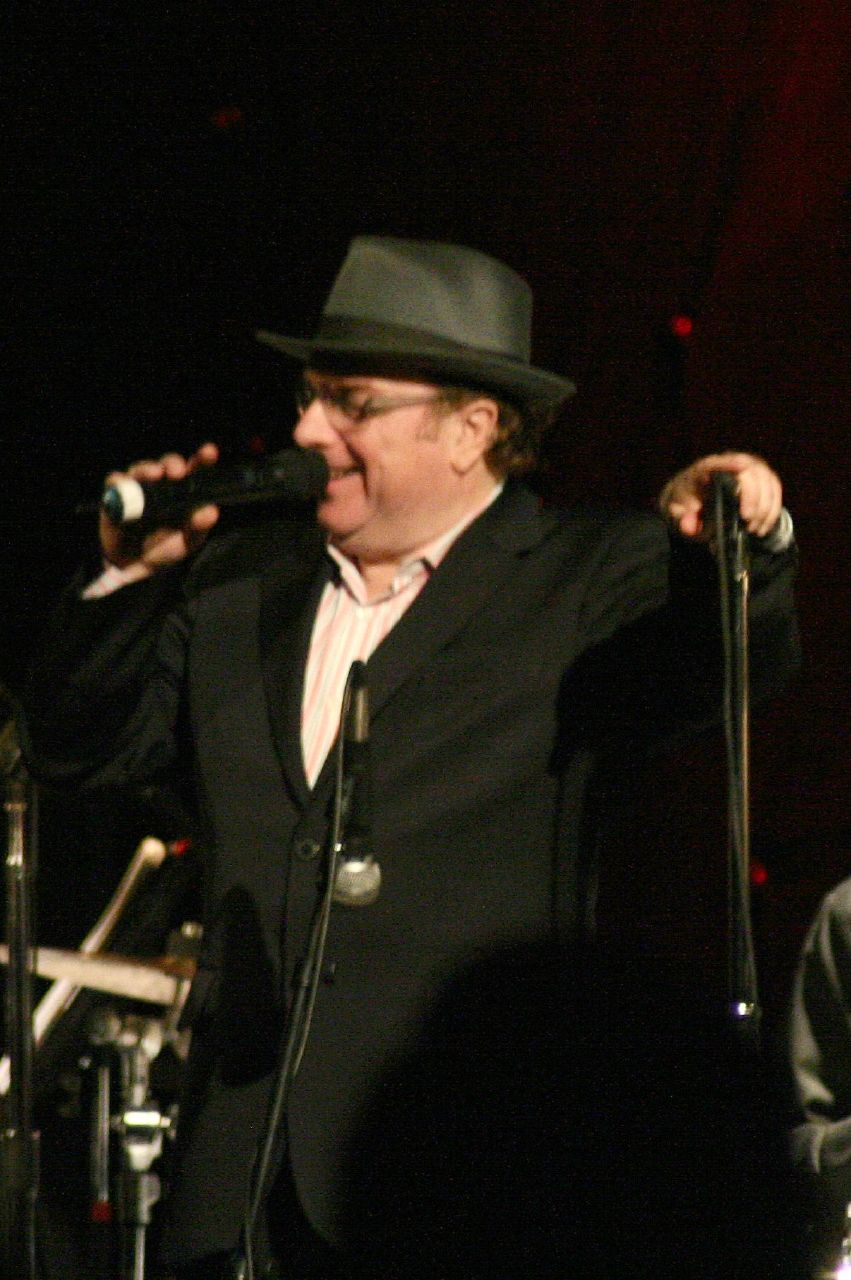 Van Morrison